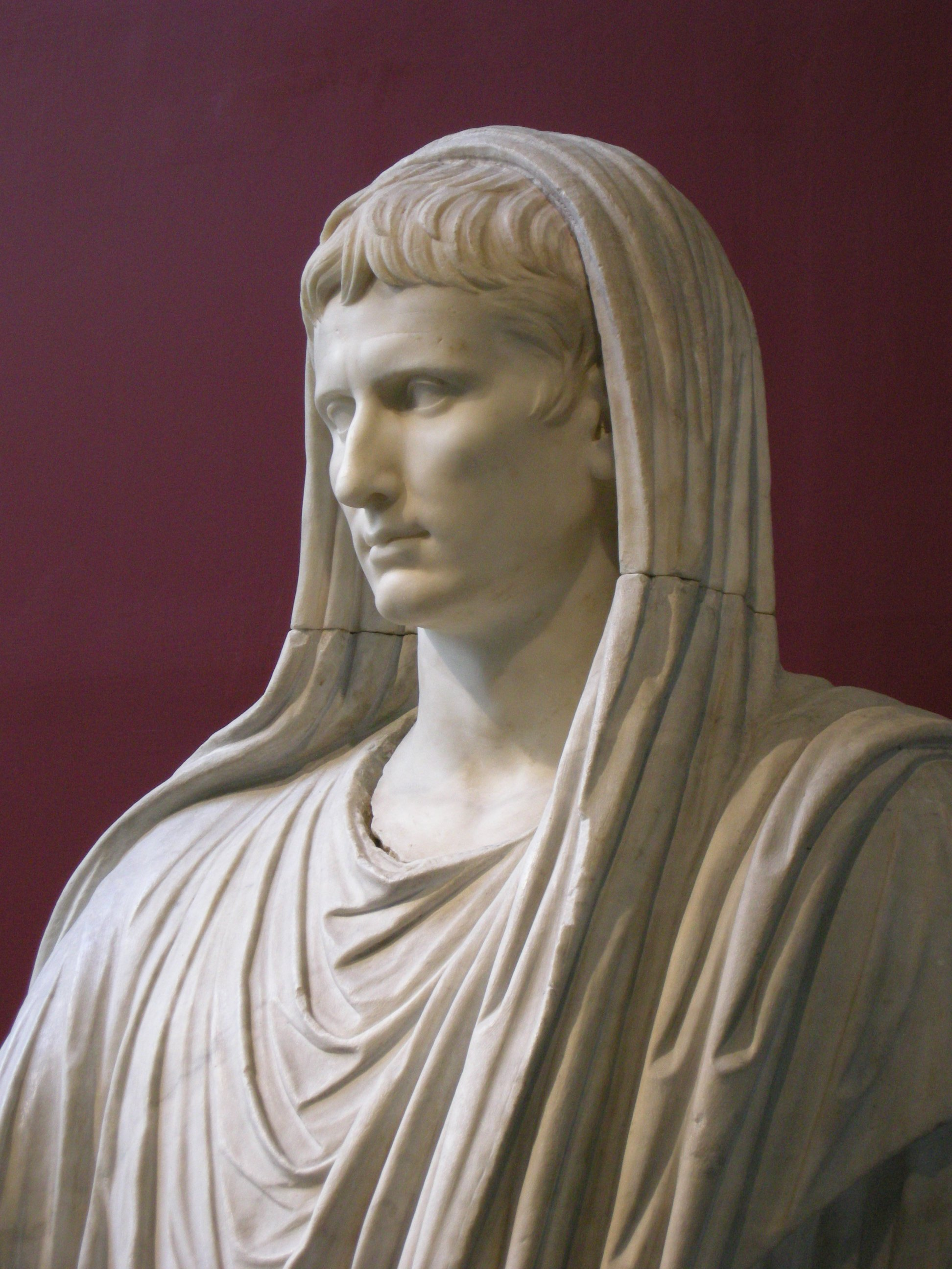 read filename pls